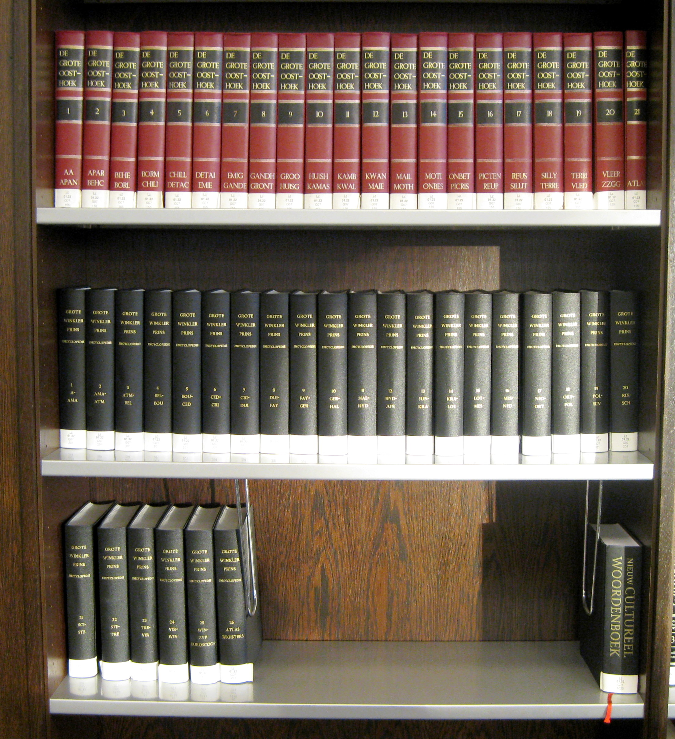 University library of Nijmegen: above Grote Oosthoek (1976-1981), below Winkler Prins (1990-1993)